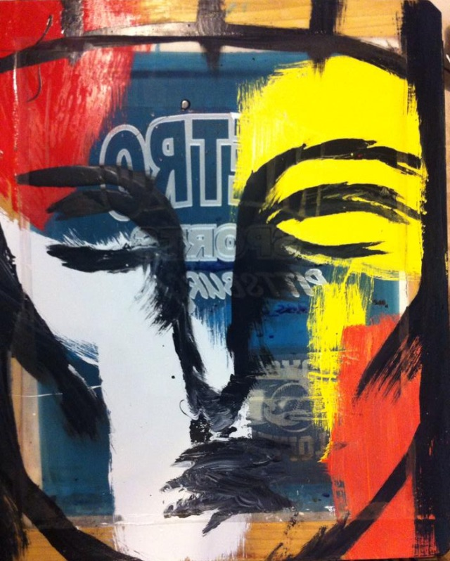 Michael Lotenero artist iconic head painting